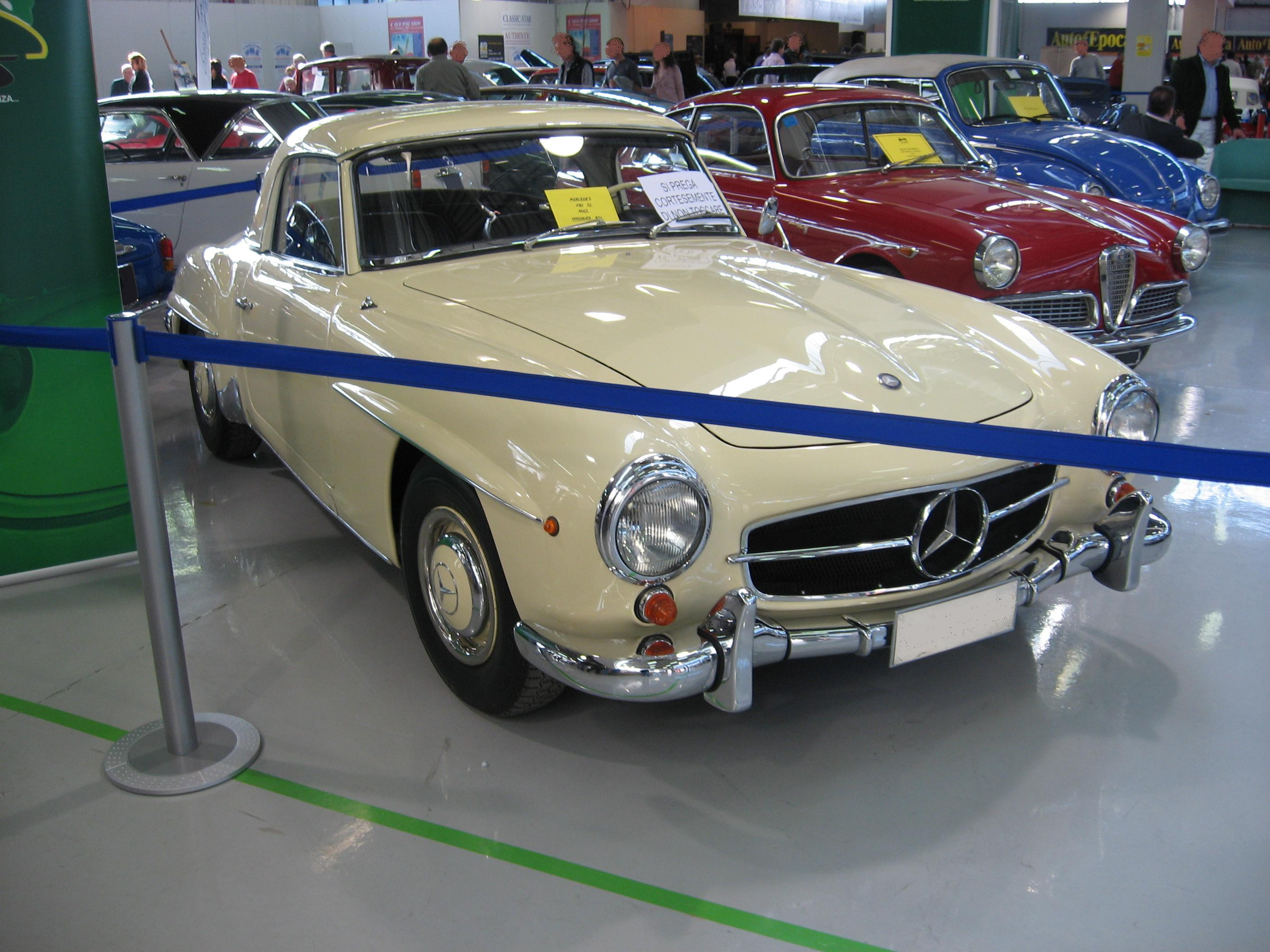 Subject: Mercedes-Benz 190 SL hard-top (W 121 B II) Author: Luc106 Date: 18 march 2007 City/Country: Forlì (Italy) Event: Old Time Show I release all rights in the public domain.